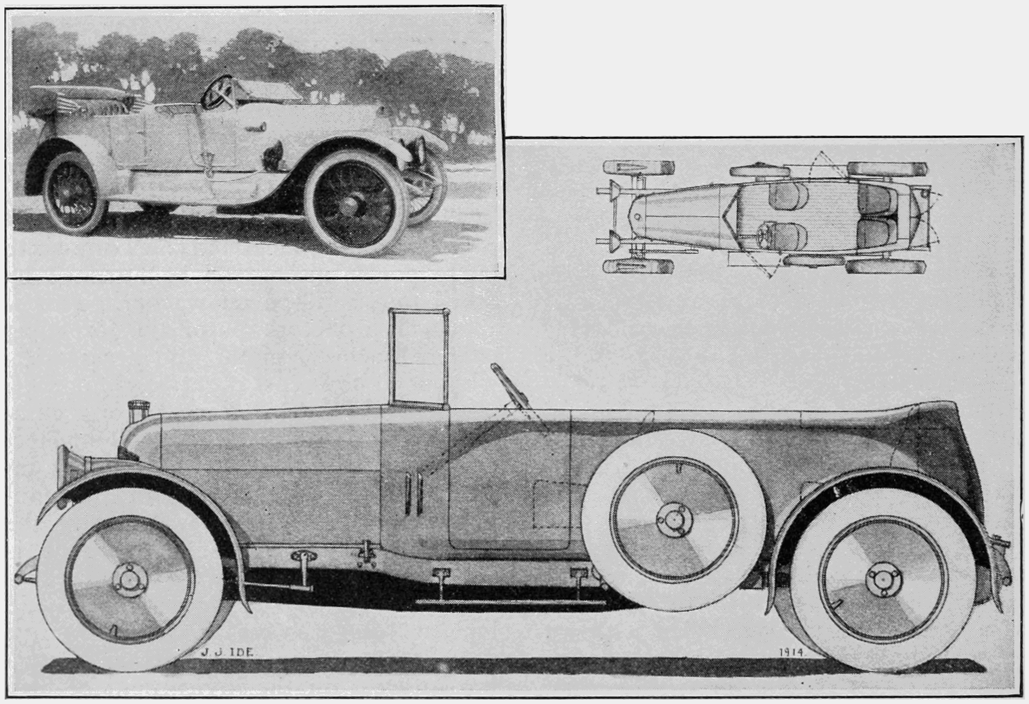 Automotive design ideas of the 1910s